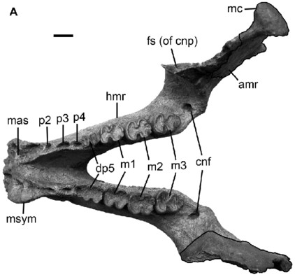 Fig. 6A. Mandible of Lentiarenium cristolii (Fitzinger, 1842); Photograph of OLL 1939/257 (holotype of “Halitherium” abeli (Spillmann, 1959)) in occlusal view. Both outlined areas indicate reconstructed parts. Scale bar = 2 cm. amr: ascending mandibular ramus; cnf: coronoid foramen; dp5: lower deciduous premolar 5; fs (of cnp): fracture surface of coronoid process; hmr: horizontal mandibular ramus; m1–3: lower molar 1–3; mas: masticating surface; mc: mandibular condyle; msym: mandibular symphysis; p2–4: lower premolar or alveolus 2–4